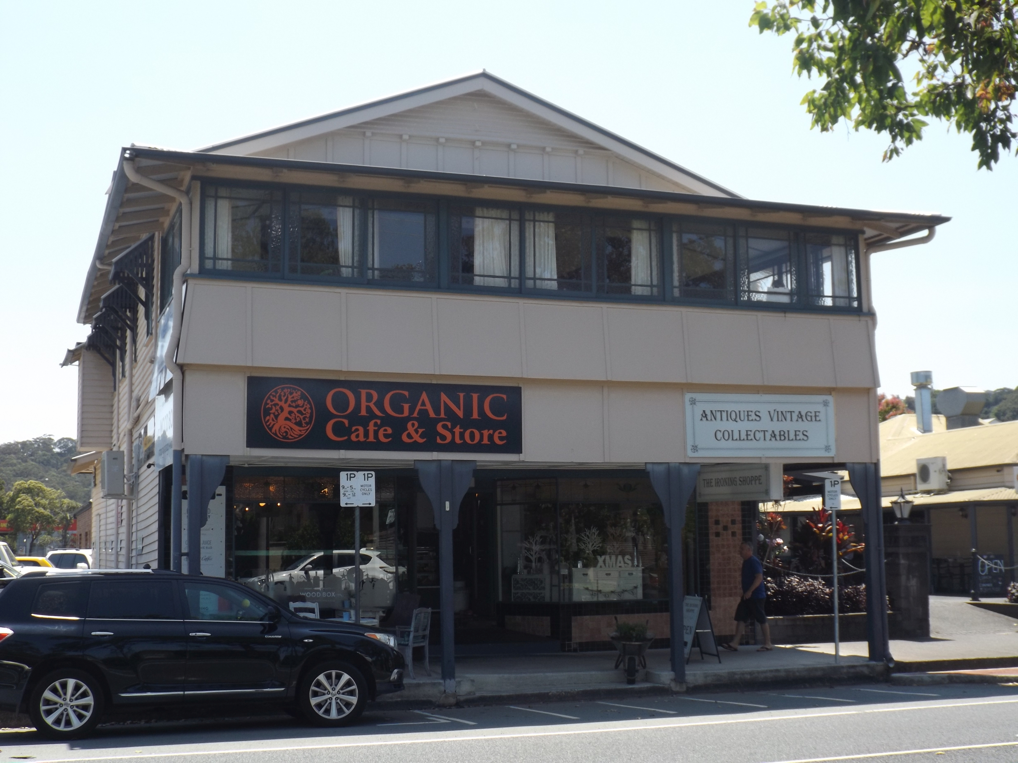 Photo of the West Burleigh Store at Burleigh Heads, Gold Coast City, Queensland, Australia.